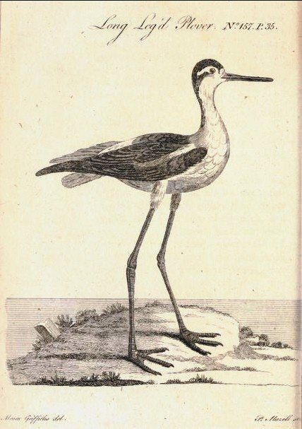 "Long Leg'd Plover" in Flora Scotica, one of a few birds listed in John Lightfoot's 1777 book. Drawn by Moses Griffiths; engraved by Peter Mazell.